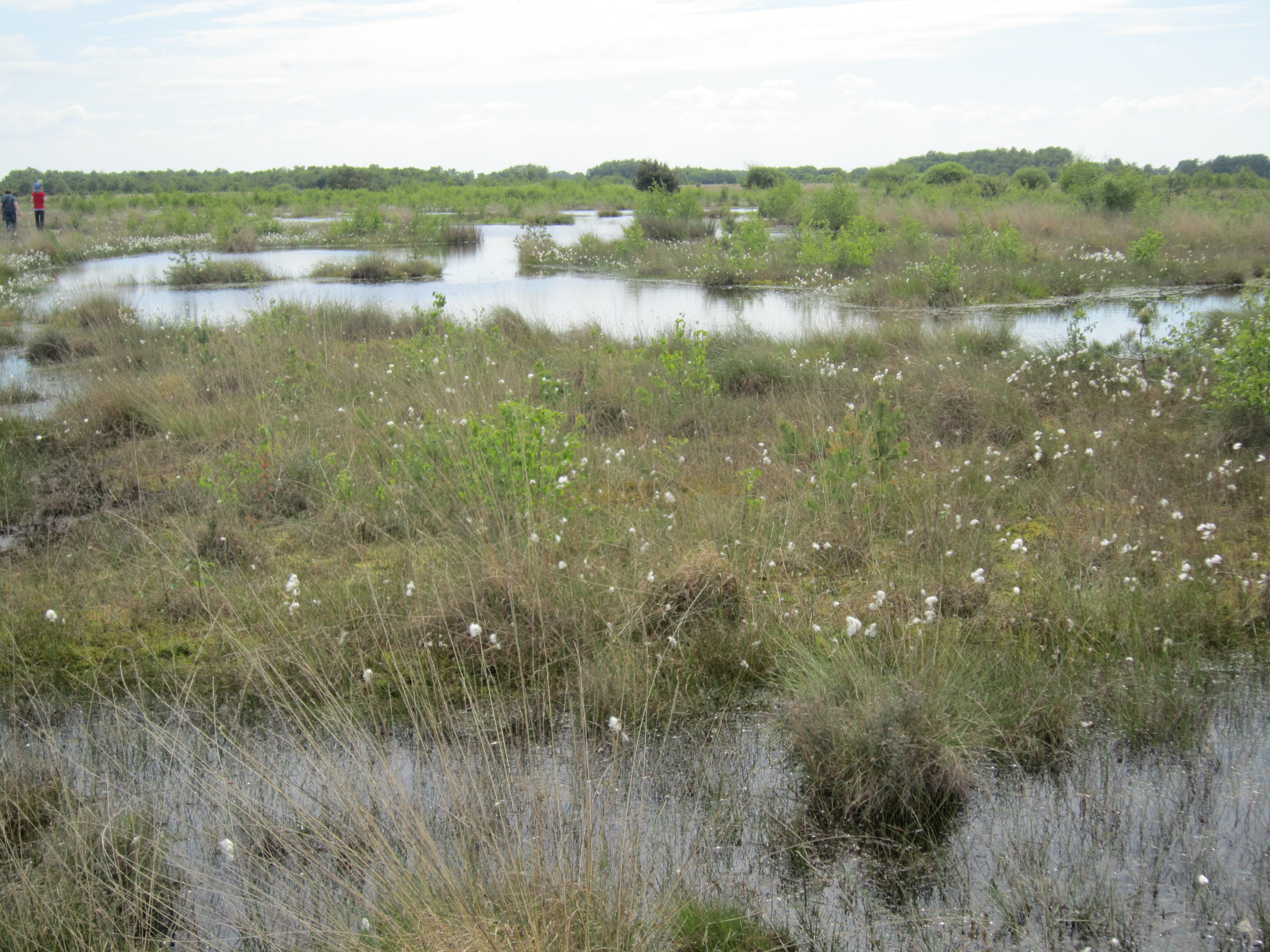 Bog "Neustädter Moor" near Ströhen (Wagenfeld, Landkreis Diepholz, Lower Saxony)